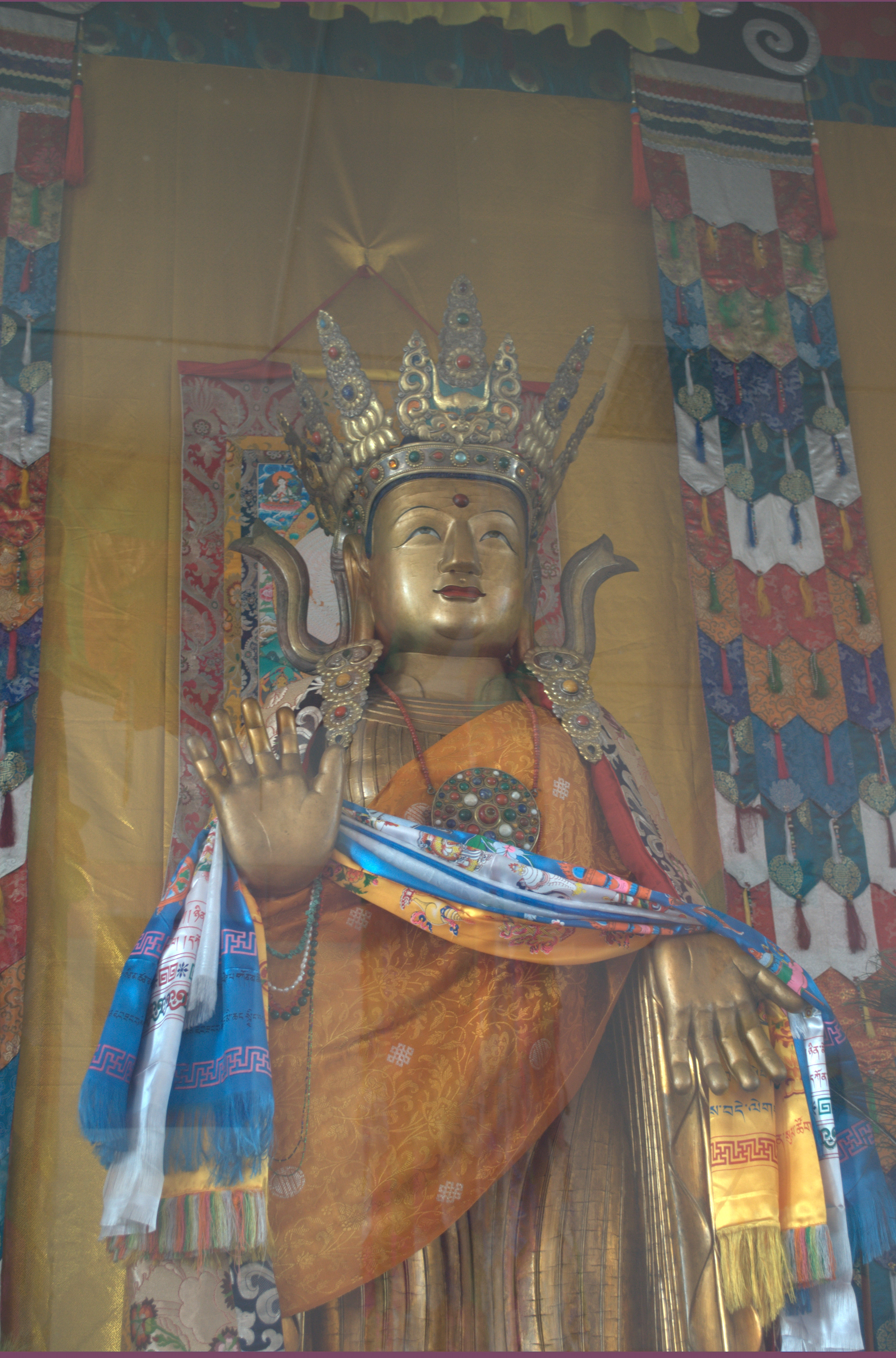 Zandan Zhuu - Sandalwood Buddha. Egituisky Datsan. Eravninsky area. Buryatia. Eastern Siberia